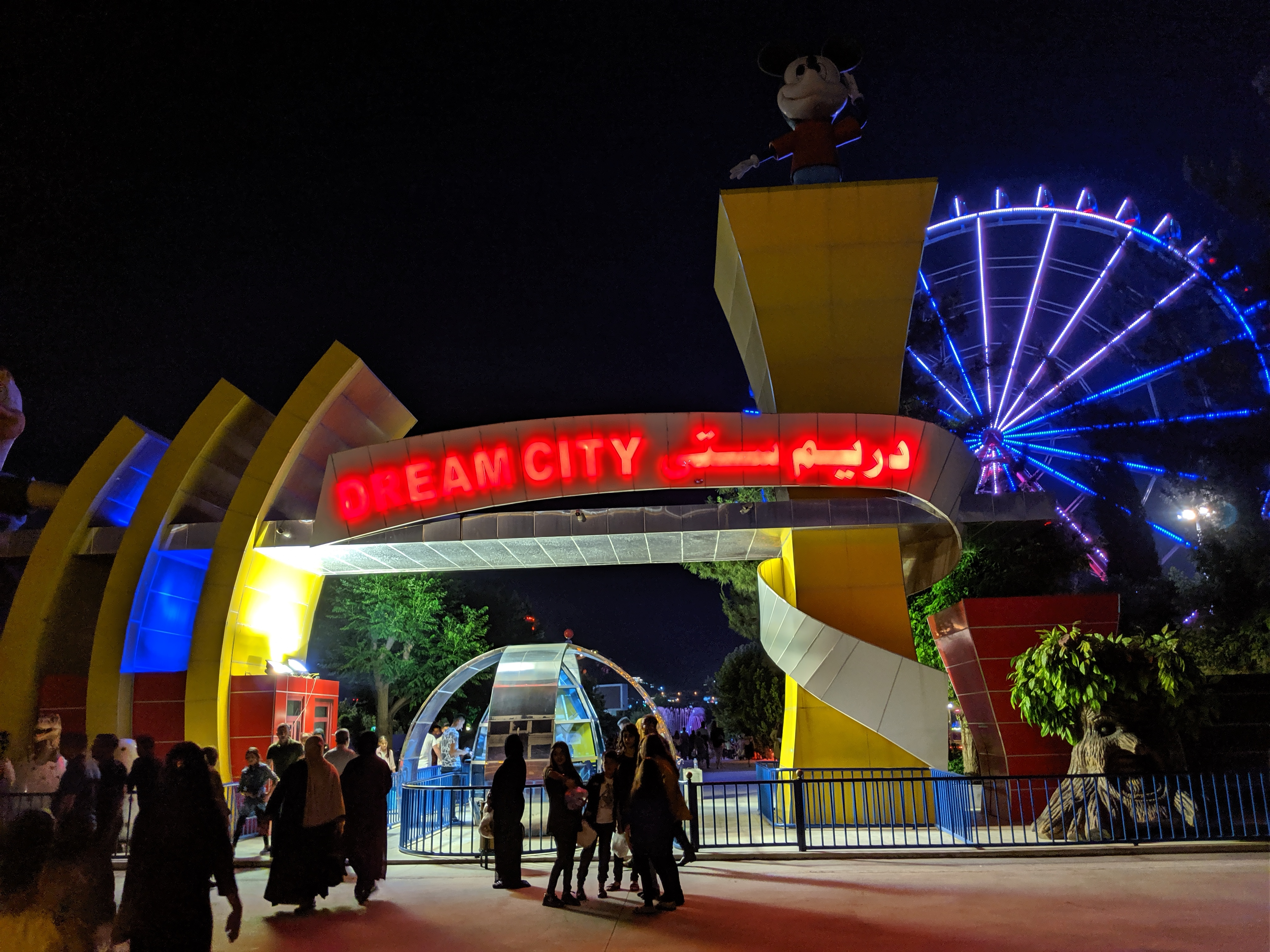 Dream City, Duhok, Iraqi kurdistan